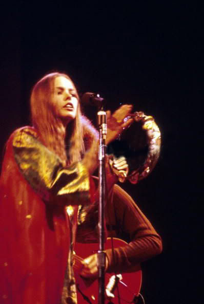 Press photo of Michelle Phillips at the Monterey Pop Festival, 1967; outtakes of a shoot that would be used on The Mamas & The Papas - Historic Performances Recorded At The Monterey International Pop Festival LP (ABC/Dunhill Records) — UICY-75707.